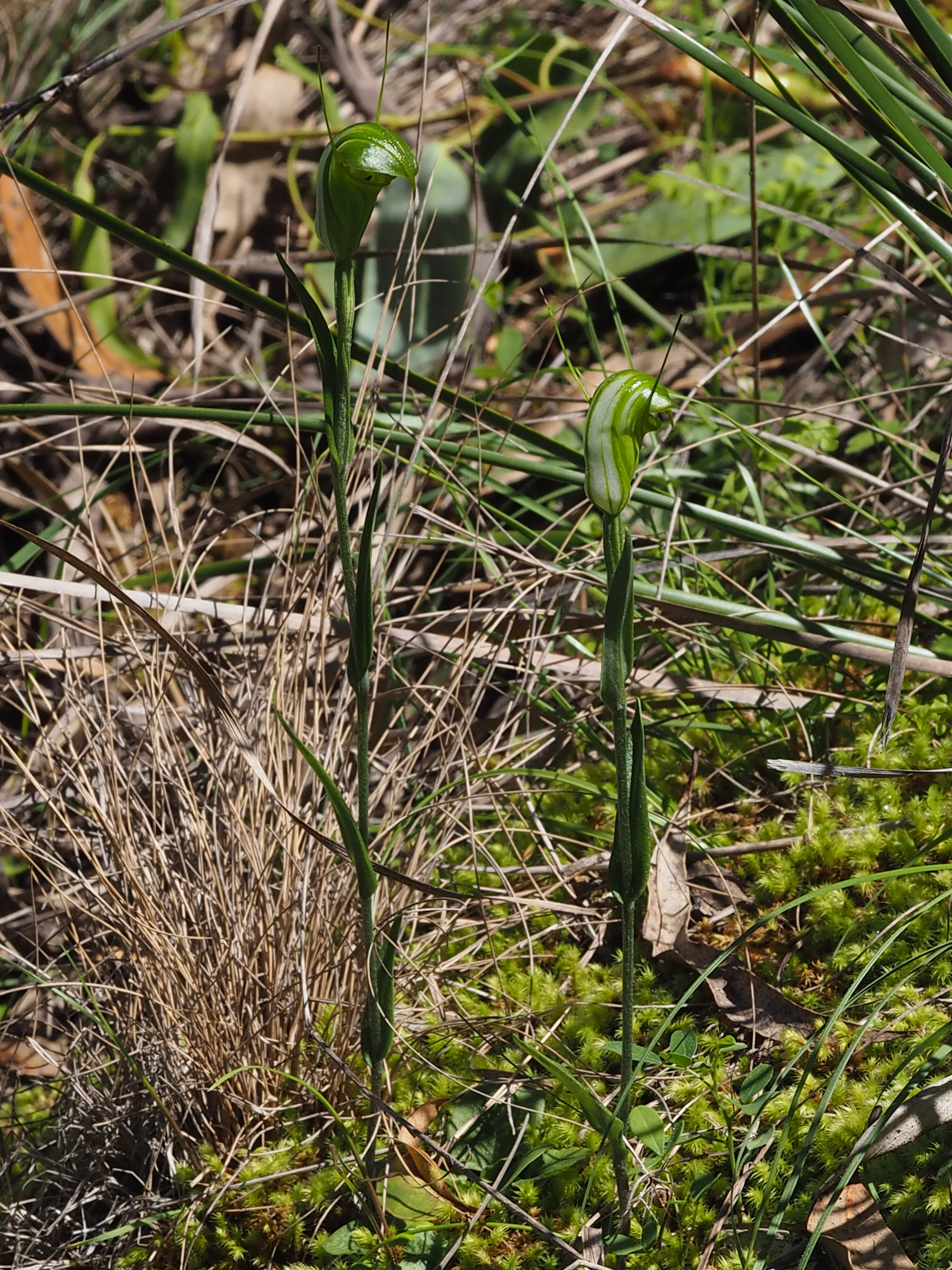 Pterostylis obtusa growing near the Gara Gorge lookout, east of Armidale, New South Wales